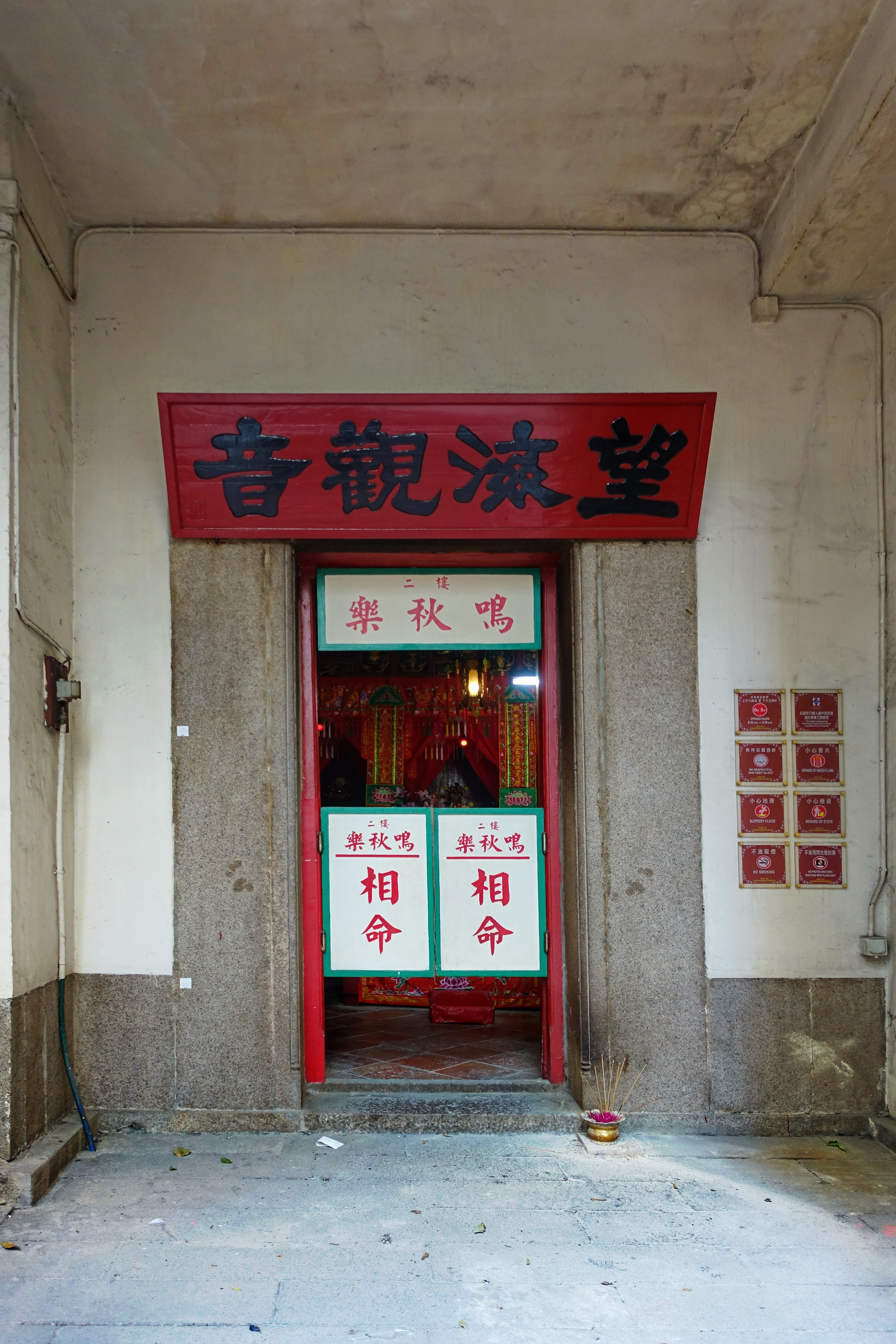 The entrance of the Kwun Yum temple, an annex added to the Hung Shing Temple in 1867. (Nos. 129-131 Queen's Road East, Wan Chai, Hong Kong).